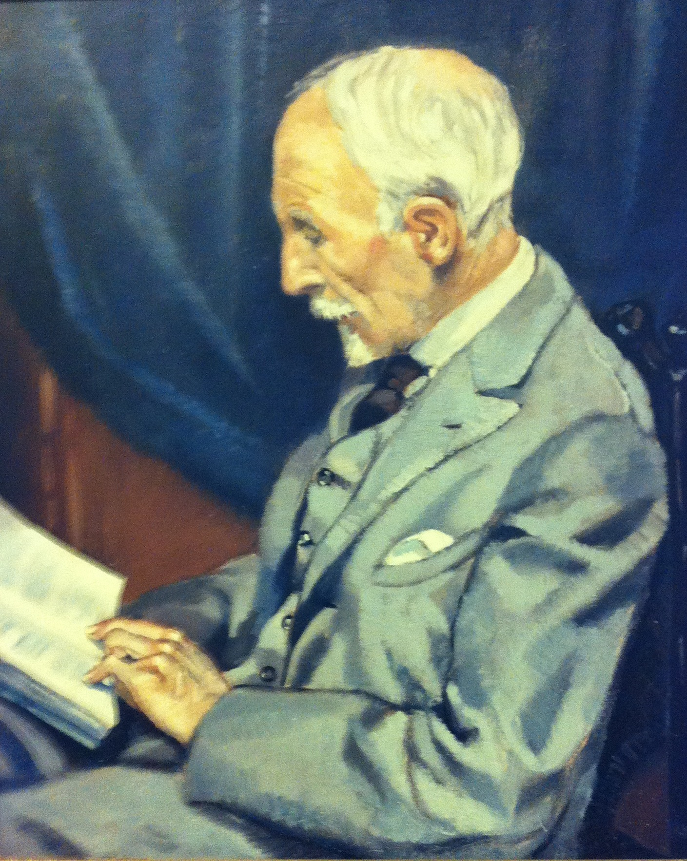 Portrait of Harry Piers, Nova Scotia Museum - artist unknown